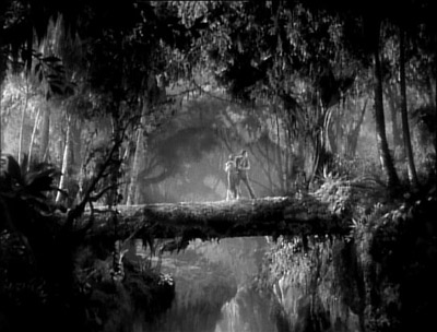 Set for The Most Dangerous Game (with Joel McCrea & Fay Wray) - cropped screenshot